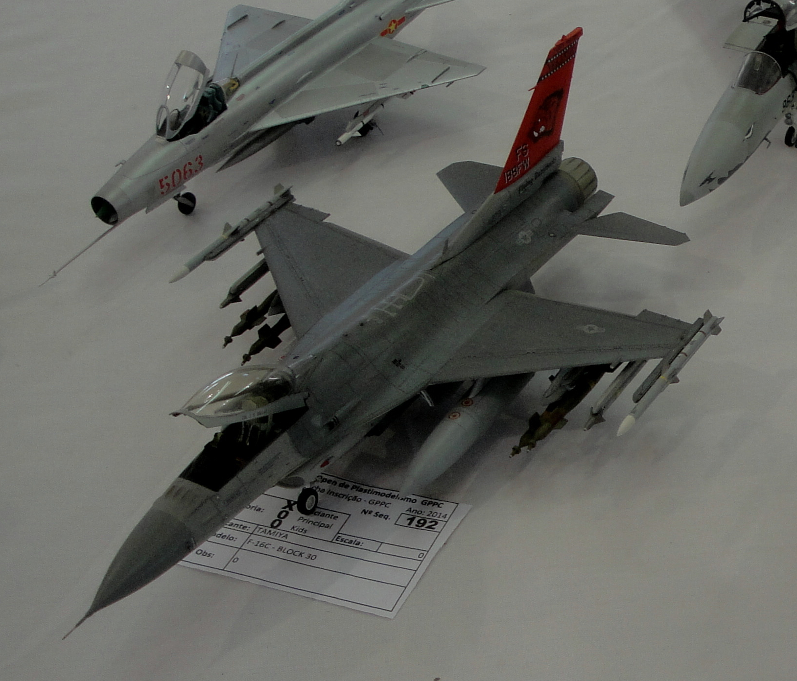 XVII Open de Plastimodelismo de Catanduva realizado no Espaço de Exposições da Estação Cultura em Catanduva.